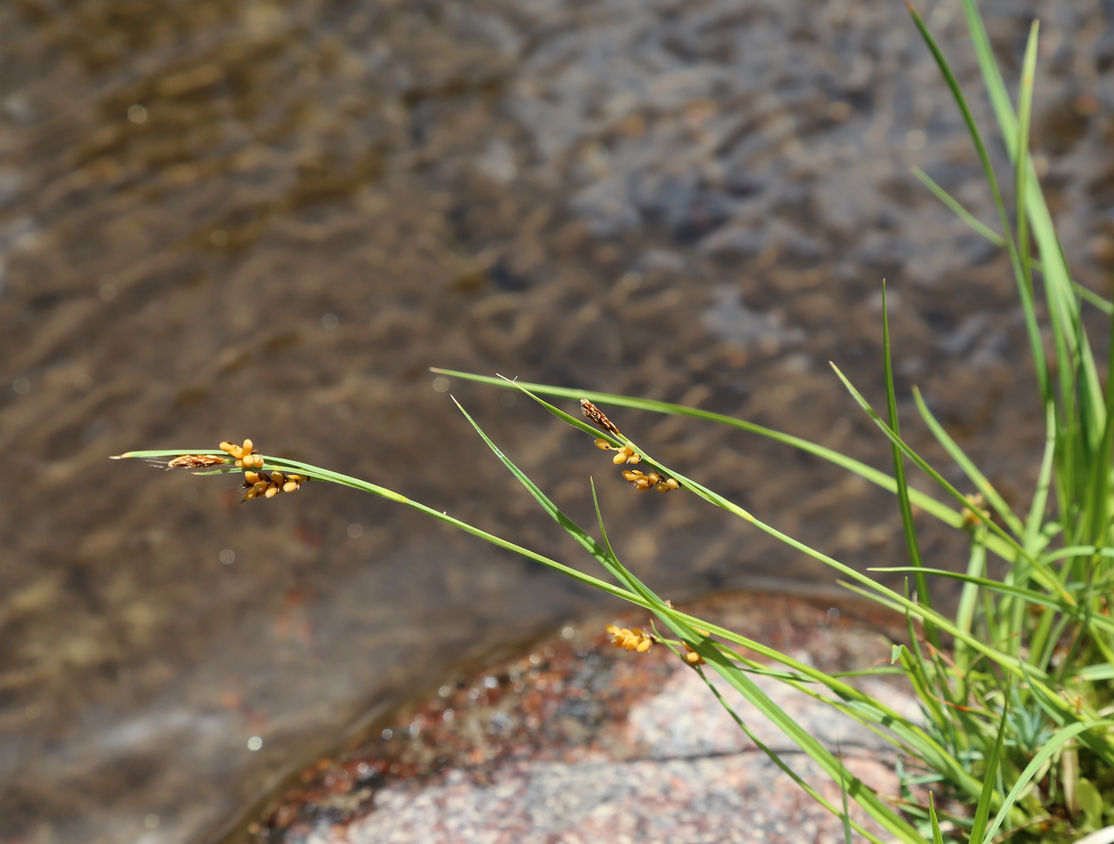 Carex aurea plant between rocks next on streambank. Along Bishop Creek at 8,500 ft (2,600 m), in Aspendell, Inyo County, California.